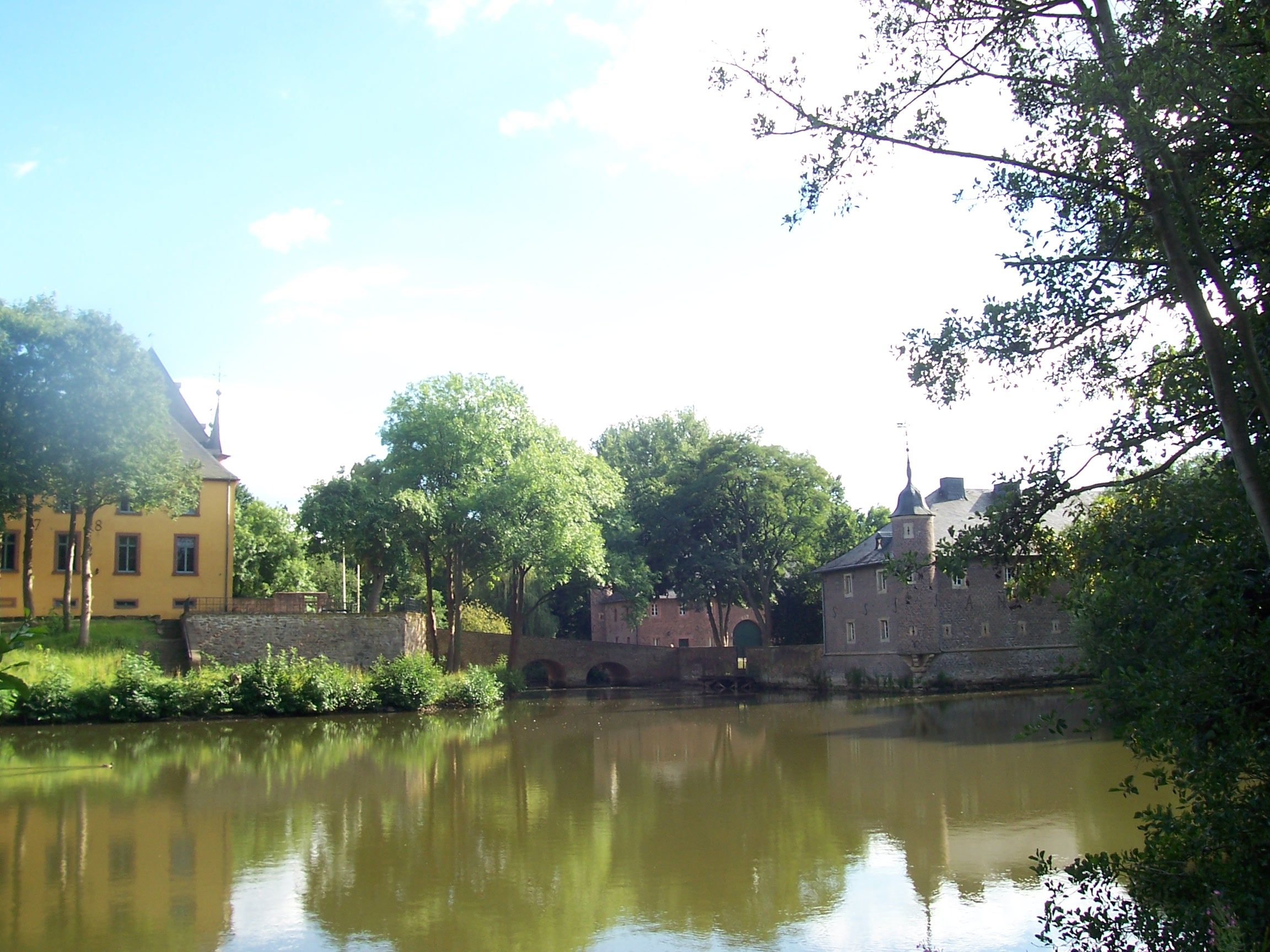 the castle Schloss Burgau in Düren-Niederau with pond